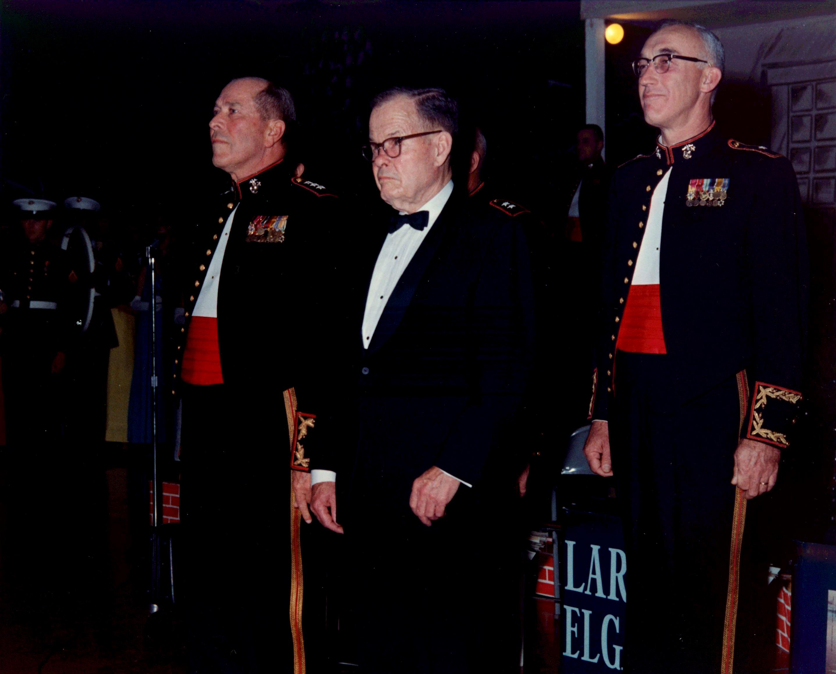 Marine Corps Birthday Celebration at Marine Corps Development and Educational Center, Quantico, Virginia, 10 November 1969. From left: Lieutenant General Lewis J. Fields, Commanding general of the Center, LTG Lewis B. Puller (Retired), Guest of Honor and Brigadier general George D. Webster, Commanding General, Marine Corps Development and Education Command at Quantico. From the Lewis B. Puller Collection (COLL/794) at the Marine Corps Archives and Special Collections OFFICIAL USMC PHOTOGRAPH